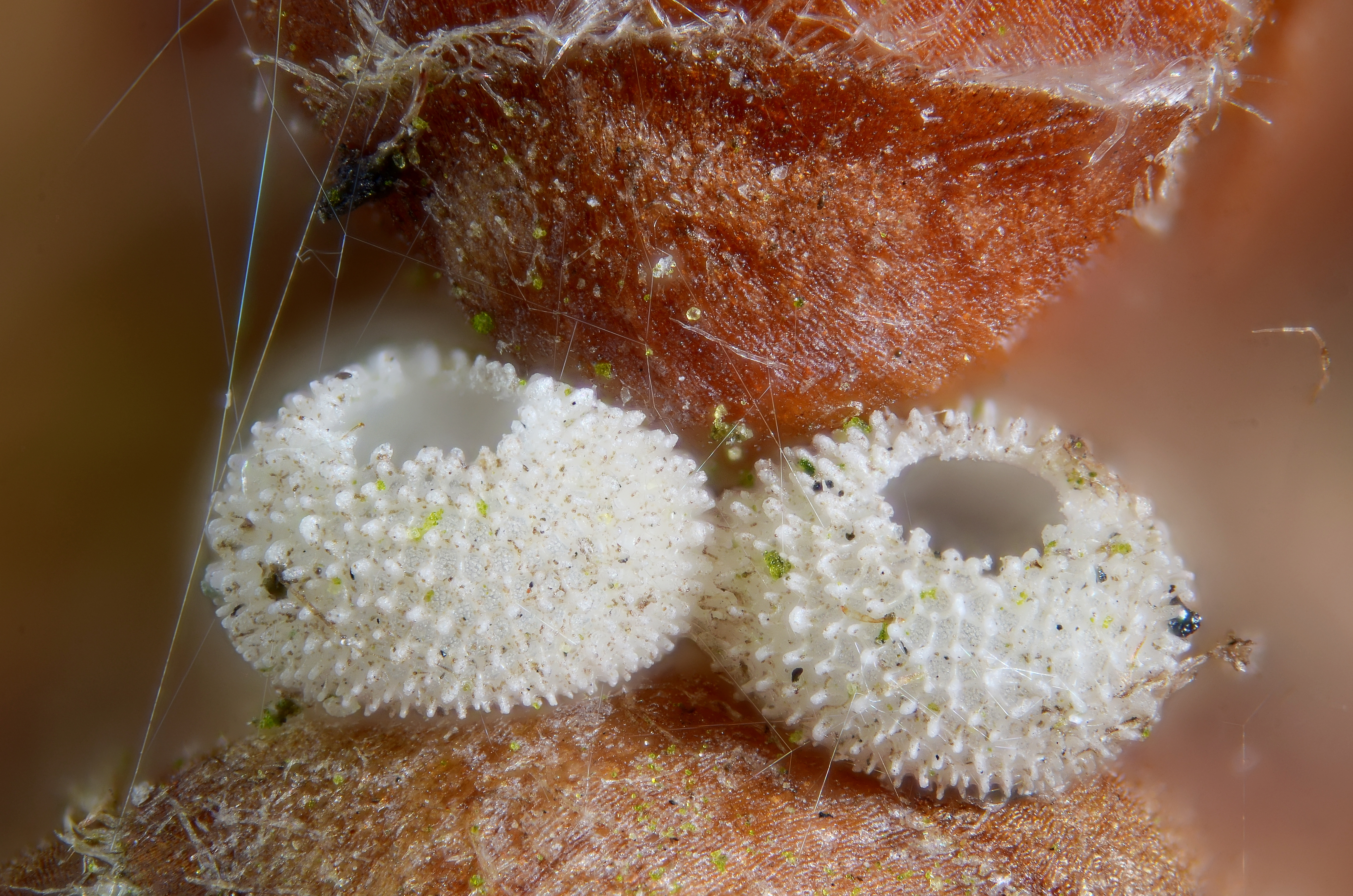 Two eggs (after hatching) of the butterfly Neozephyrus quercus on an oak (Quercus robur) bud. Scale : egg width = 0.9 mm Technical settings : Focus stacking of 41 pictures. - microscope objective (Nikon achromatic 10x 160/0.25) on bellow